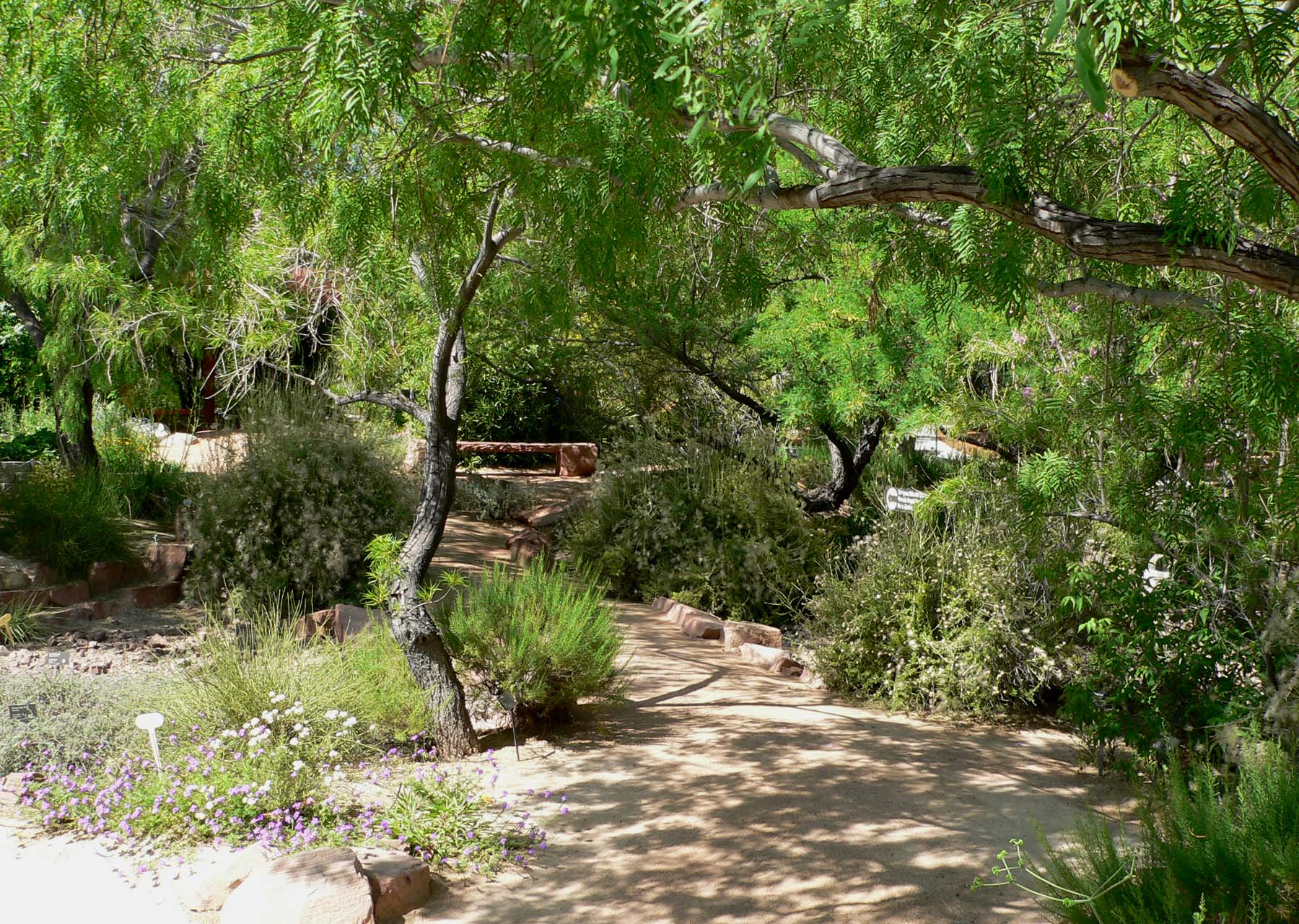 Photo of path at the Springs Preserve garden in Las Vegas, Nevada